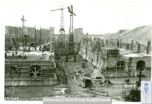 Aanleg Albertkanaal - Fotoarchief Heemkring Heidebloemke Genk